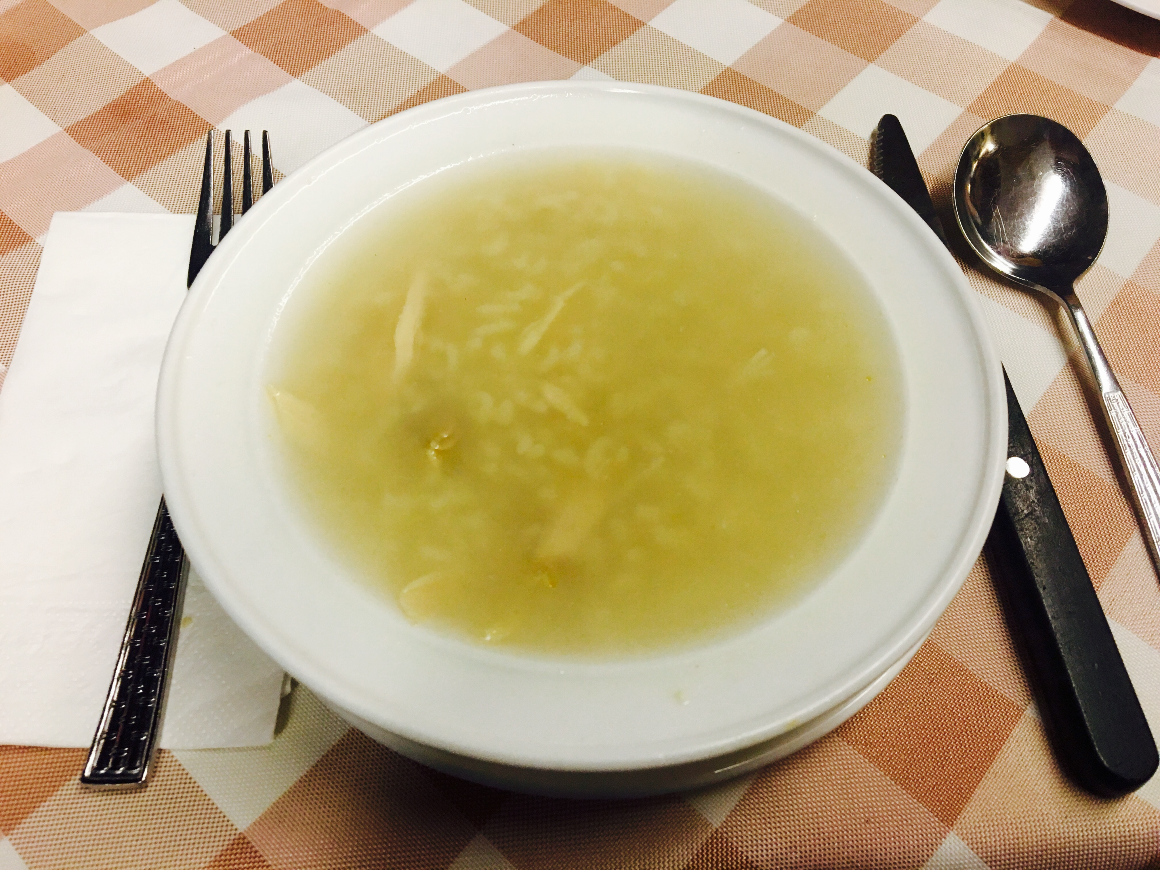 Canja de galinha, the portuguese chicken broth